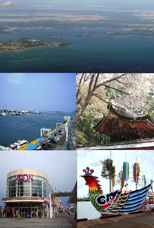 Shiogama montage